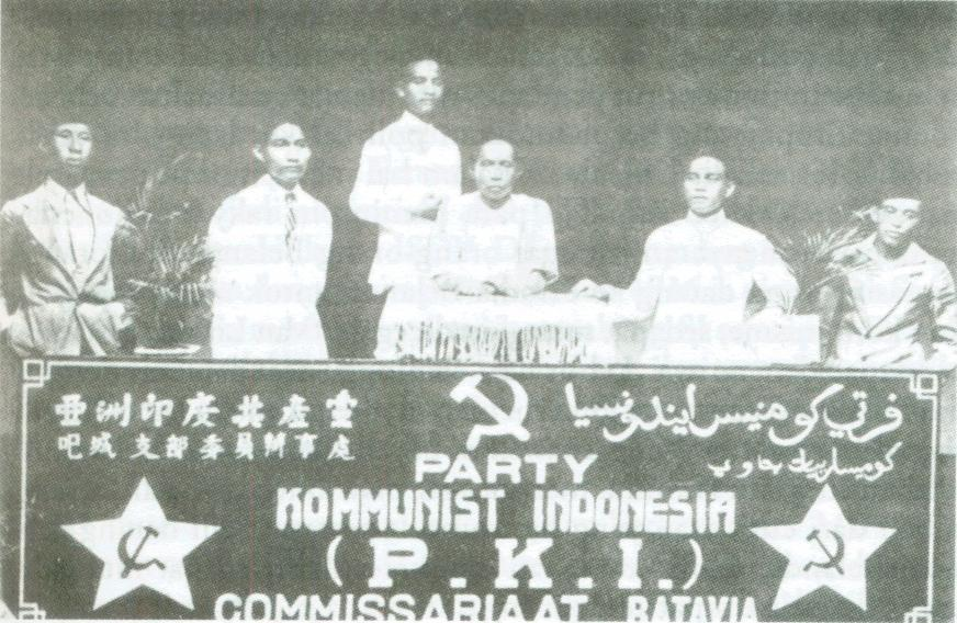 Communist Party of Indonesia (PKI) Batavia (now Jakarta) Commissariat meeting, 1925